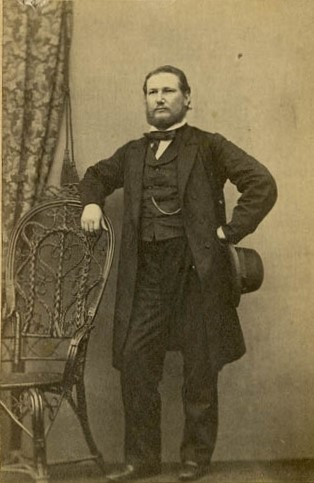 Photograph of Swedish cartographer Jonas Patrik Ljungström in the 1870s-1890s.